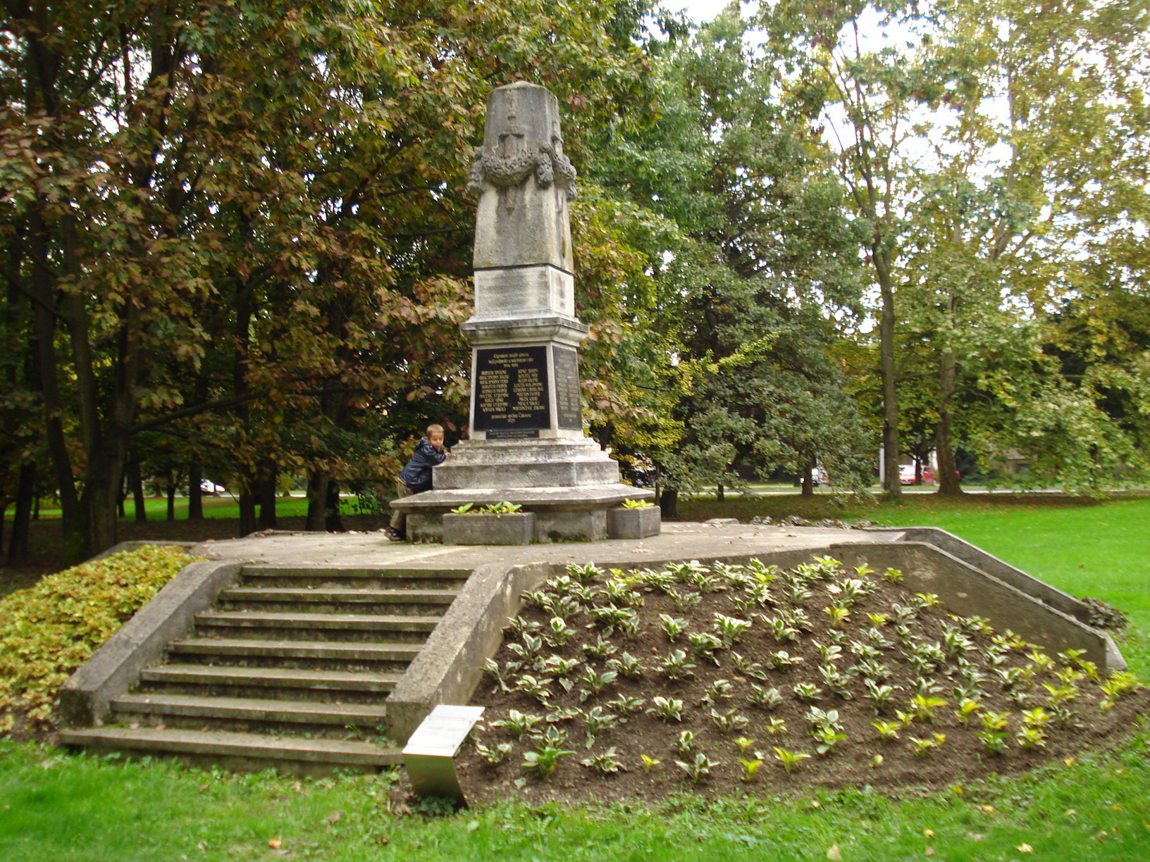 Zrinski park, Čakovec (Croatia) - Memorial to fallen soldiers in World War I